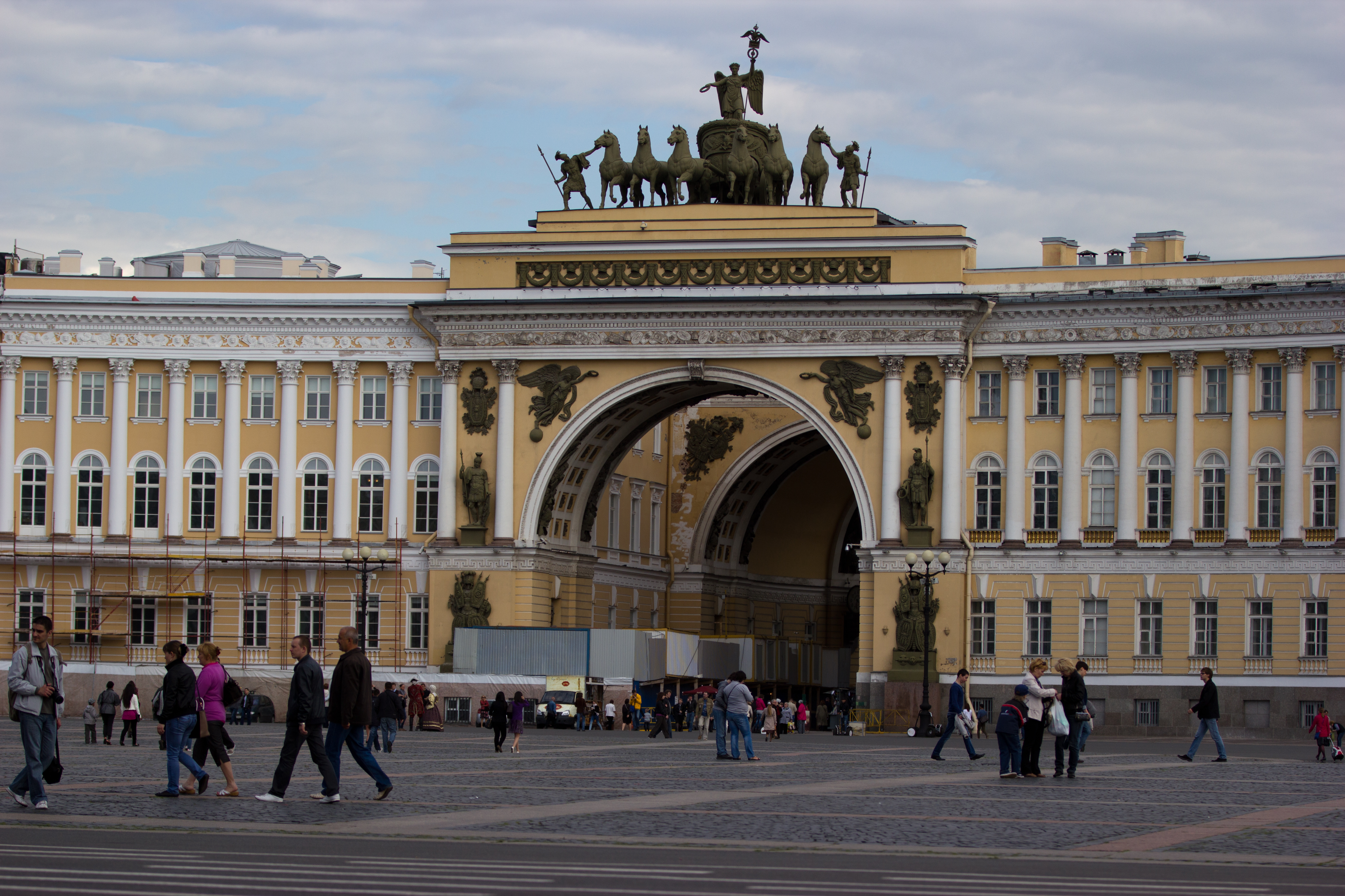 St. Petersburg Plaza